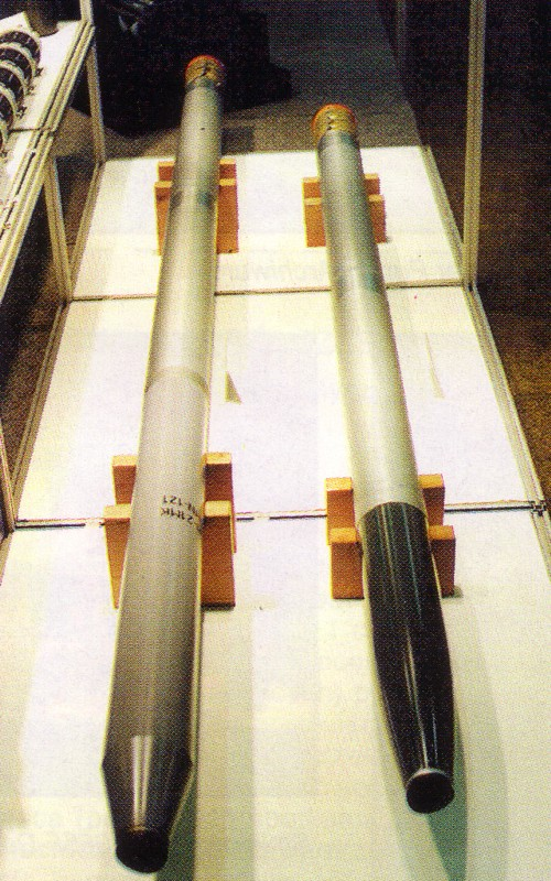 122 mm missiles